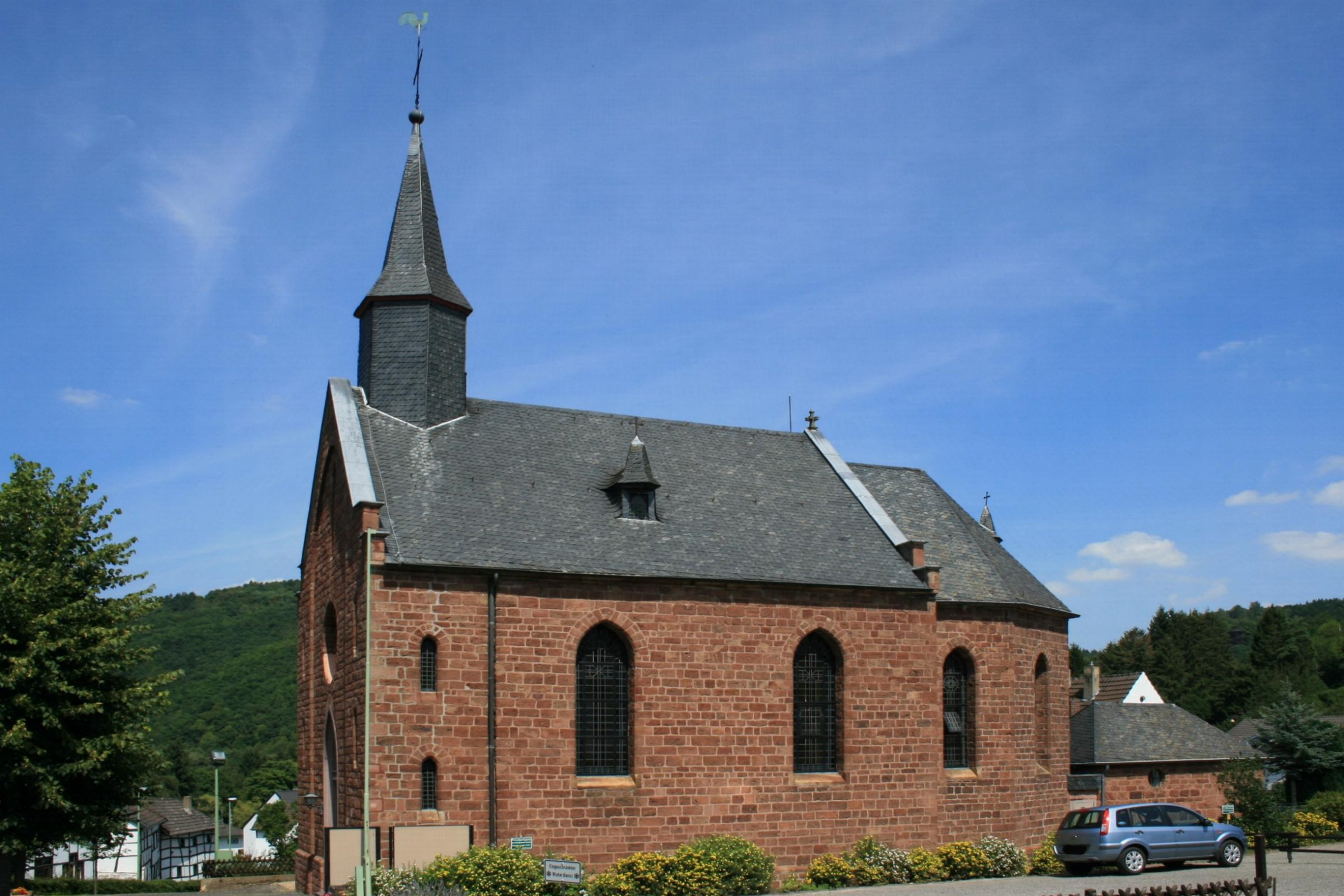 Cultural heritage monument No. 061 in Nideggen